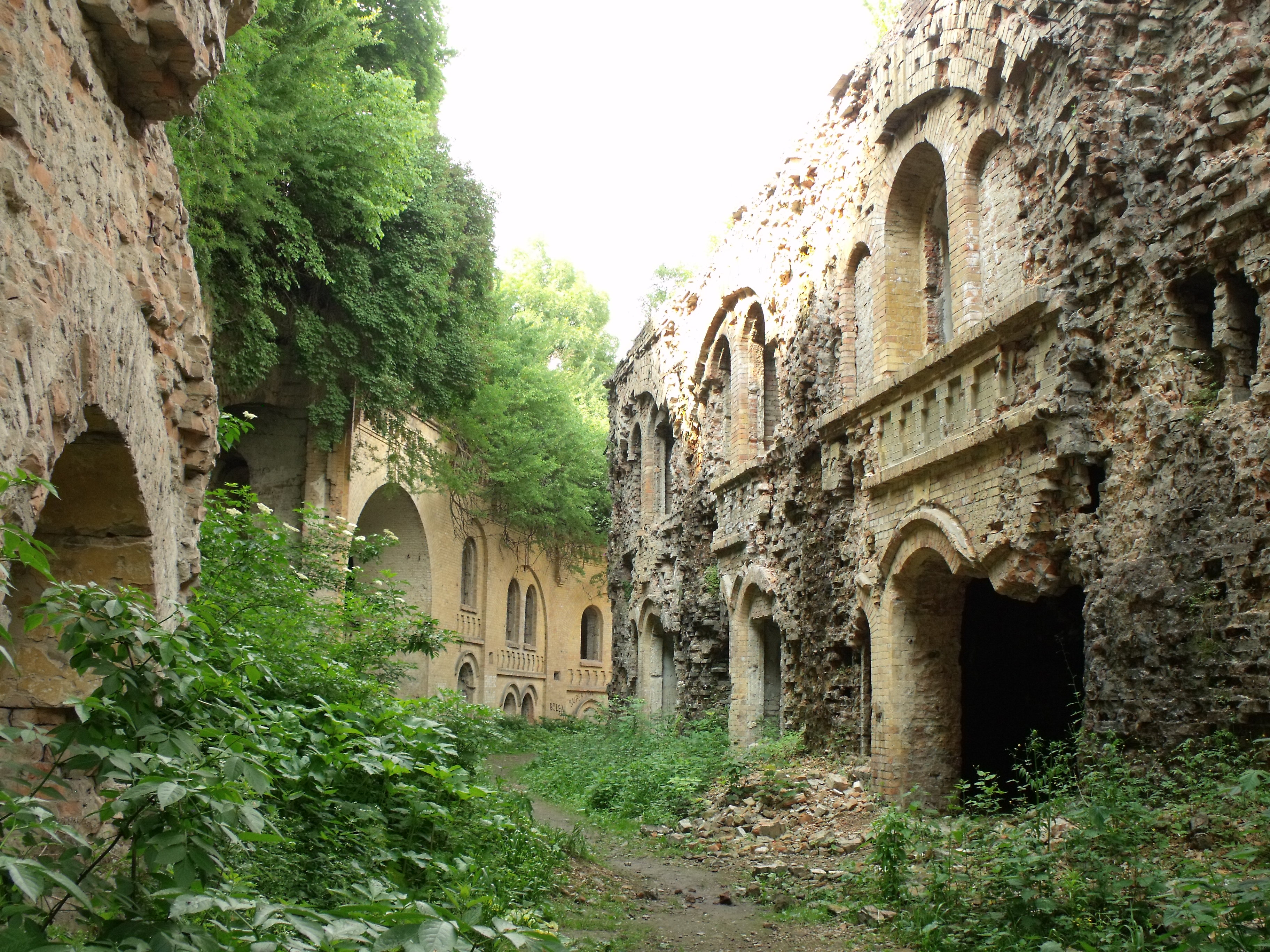 Tarakanivskyi fort, near Tarakaniv, Dubno Raion